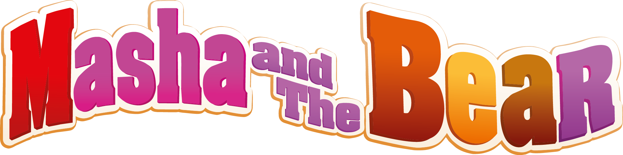 Logo for the 2009 animated television series Masha and the Bear